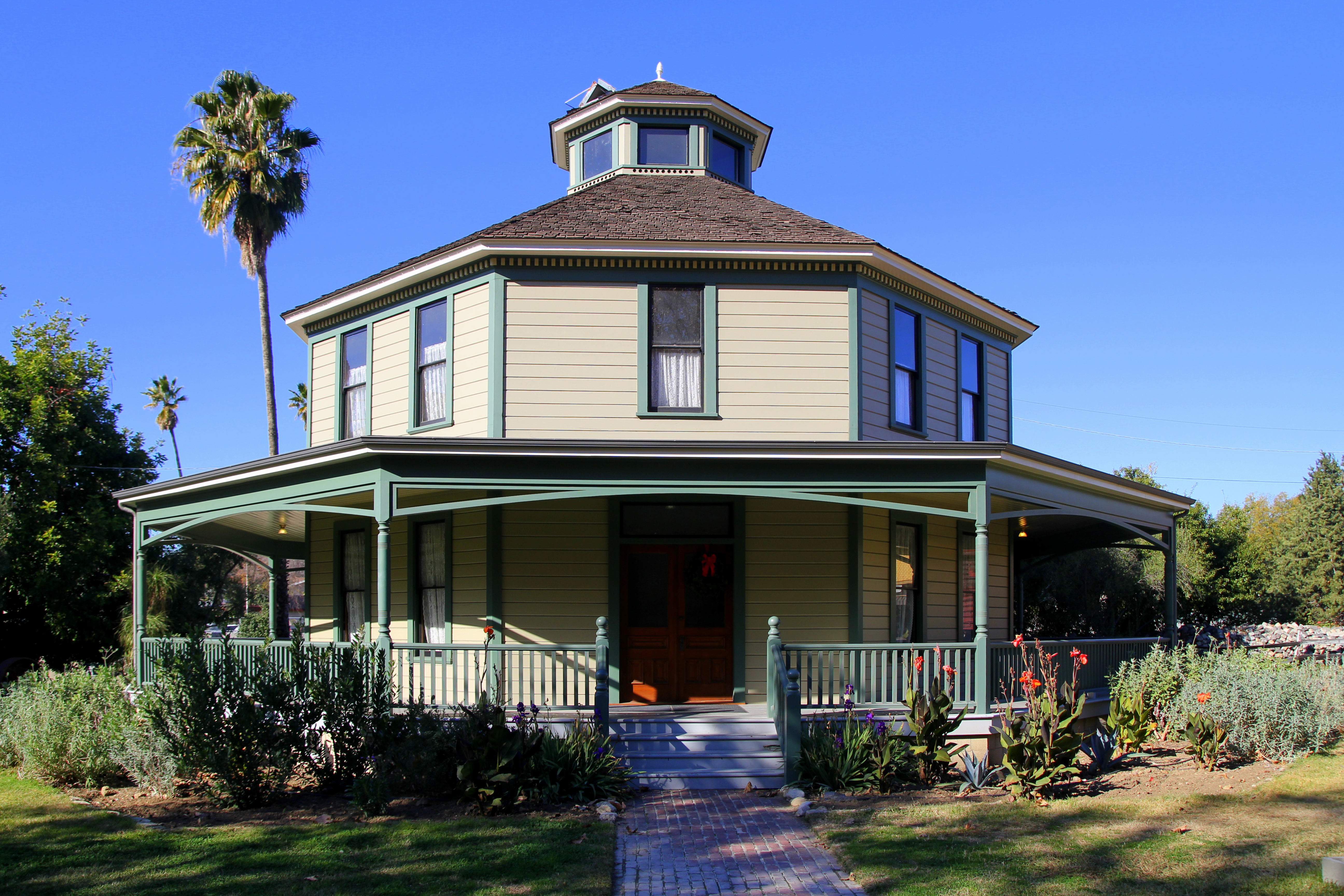 The Longfellow-Hastings Octagon House — Heritage Square Museum, north-central Los Angeles, California. The 1893 Victorian style wooden Octagon house is a Los Angeles Historic-Cultural Monument. Located at the open air Heritage Square Museum (with 7 other historic buildings), in the Arroyo Seco (3800 Homer Street), Los Angeles.